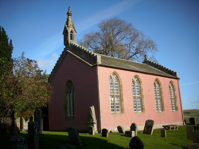 Channelkirk Parish Church. Near Oxton in Berwickshire.